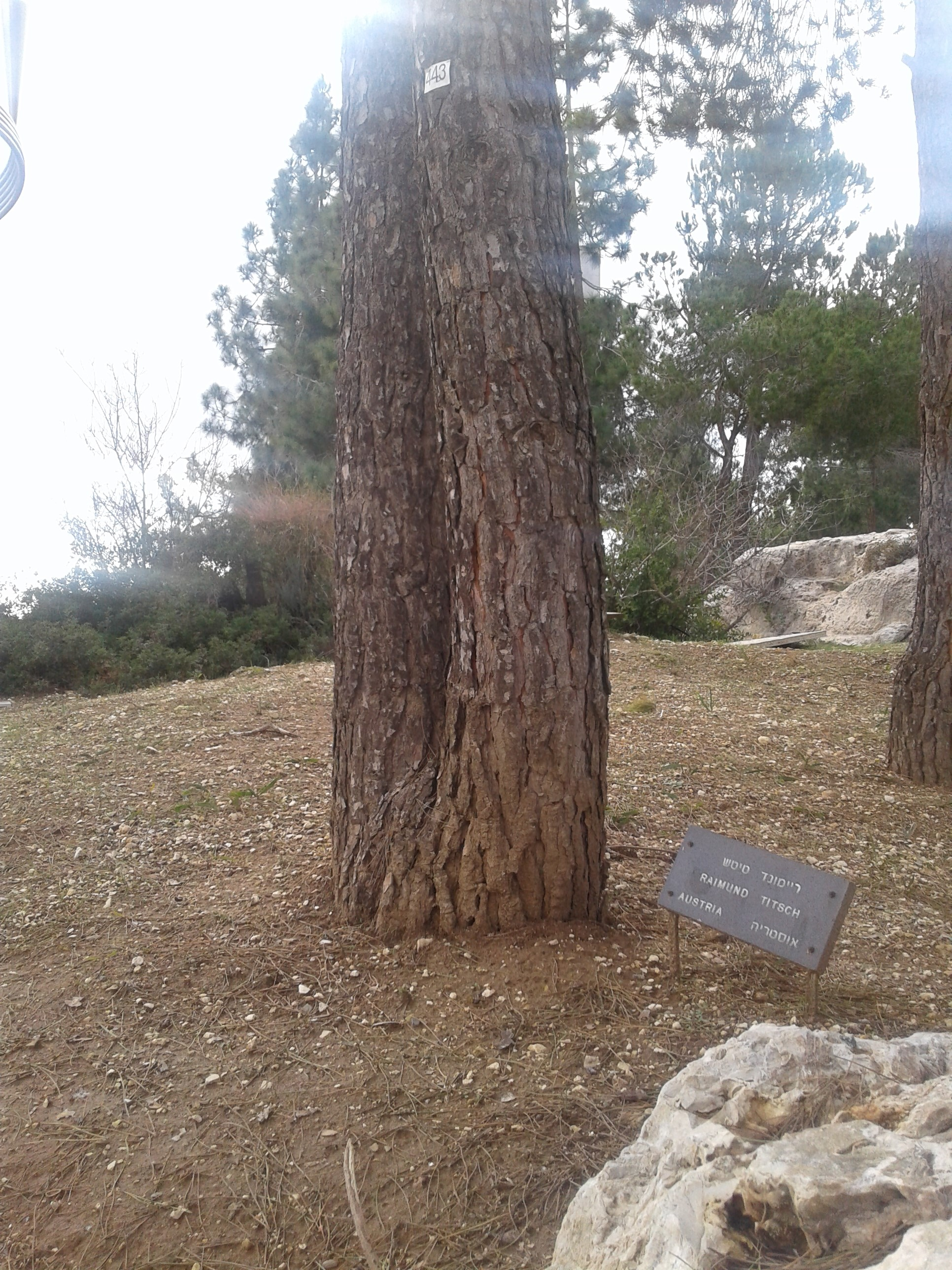 Raimund Titsch tree at Yad Vashem